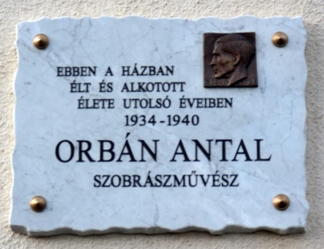 Antal Orbán commemorative plaque in Budapest District XII, Bürök Street No 7.